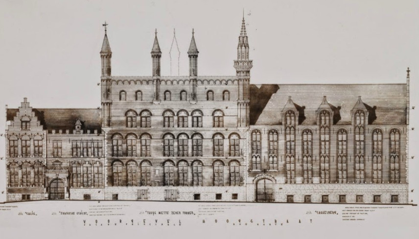 The House of the Seven Towers in Sanderus Flandria Illustrata (1641)